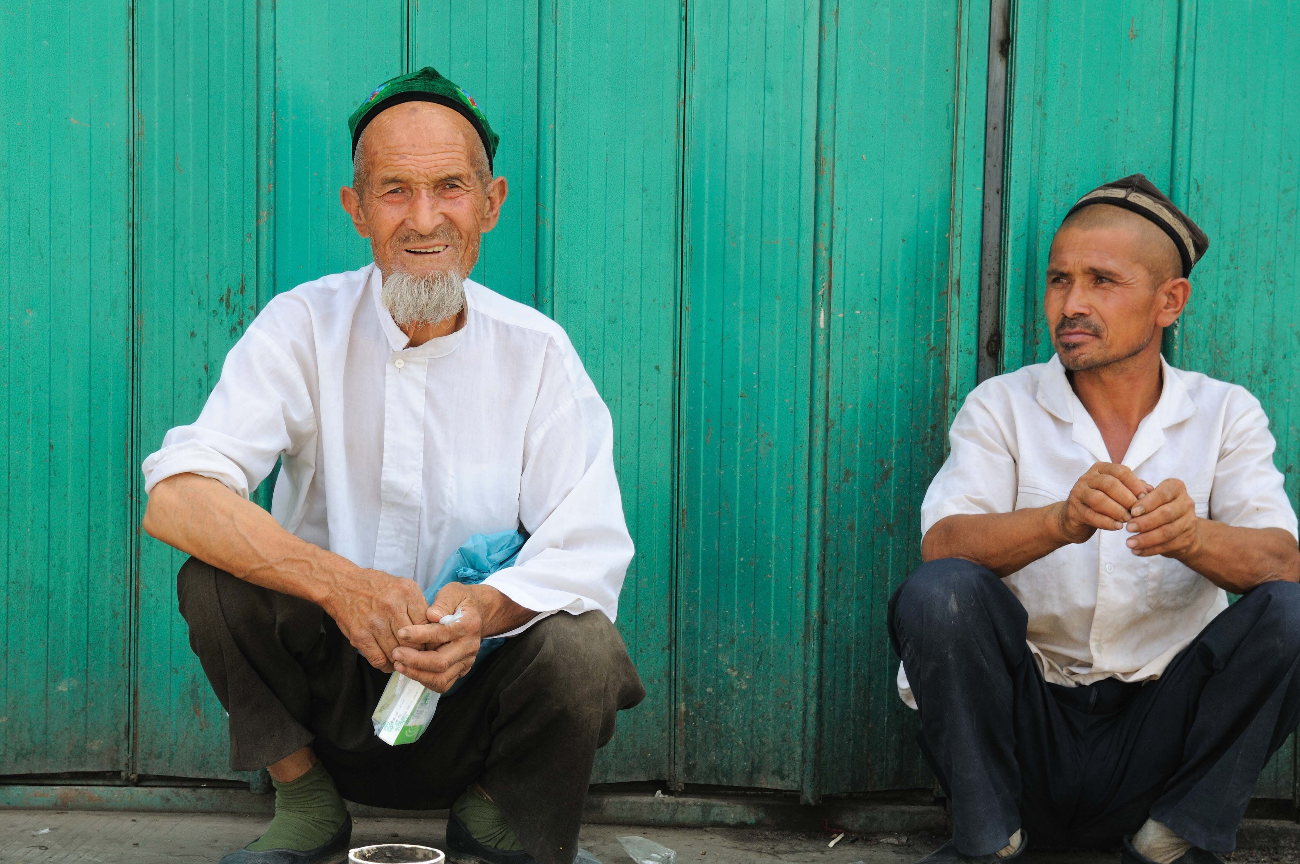 Uigurs living in the far west of China. Turpan